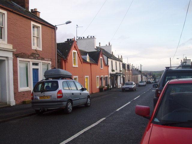 Kirkpatrick Durham